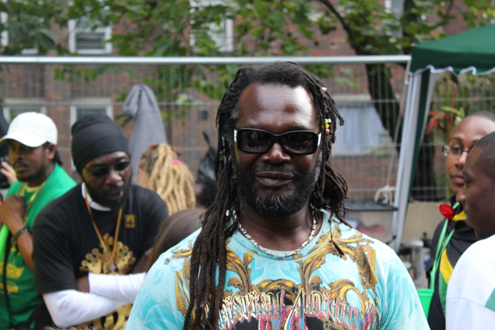 Levi Roots at Notting Hill Carnival 2010